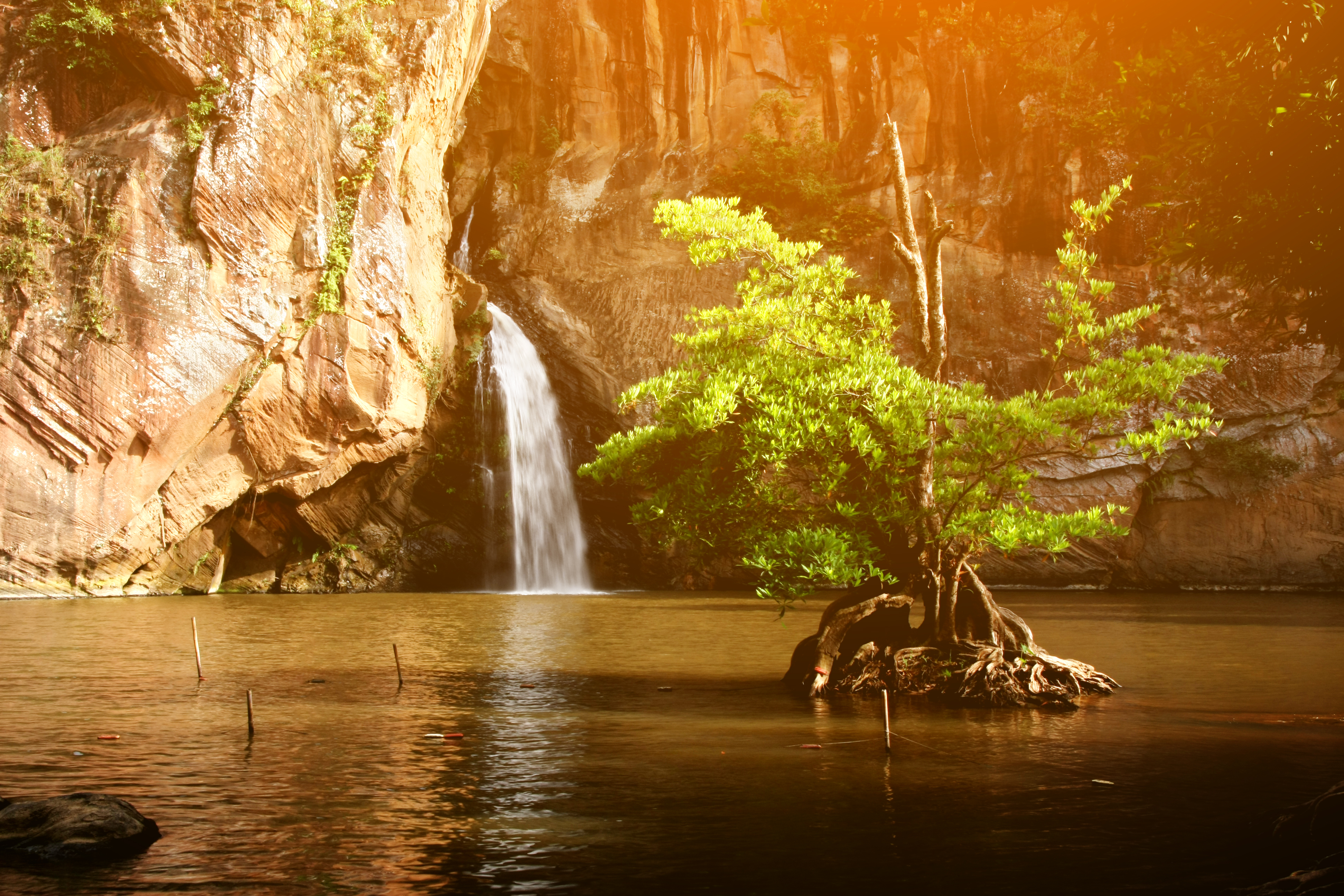 อุทยานแห่งชาติน้ำตกชาติตระการ